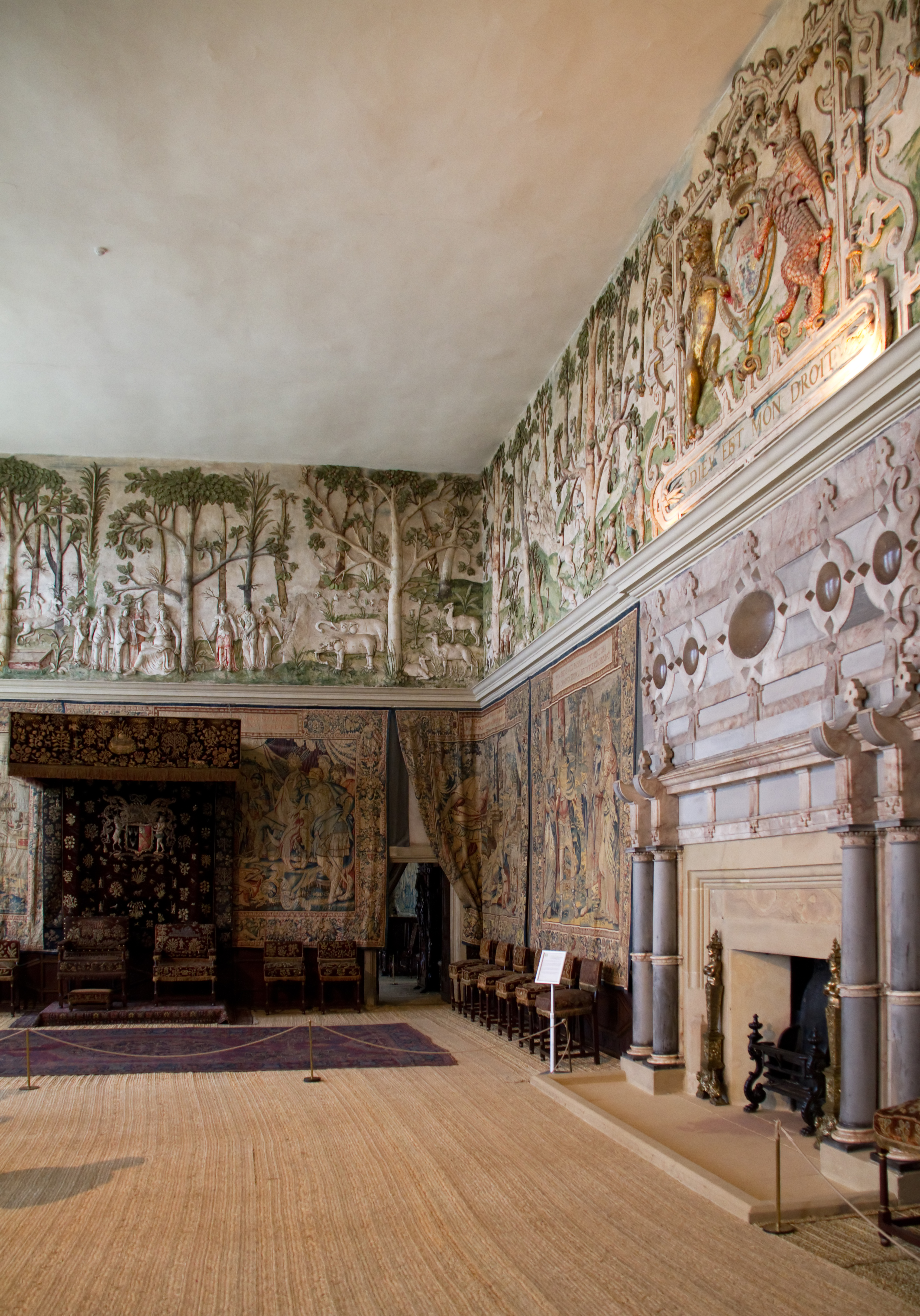 Hardwick Hall Interior 1